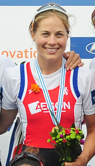 2013 Chungju World Rowing Championships